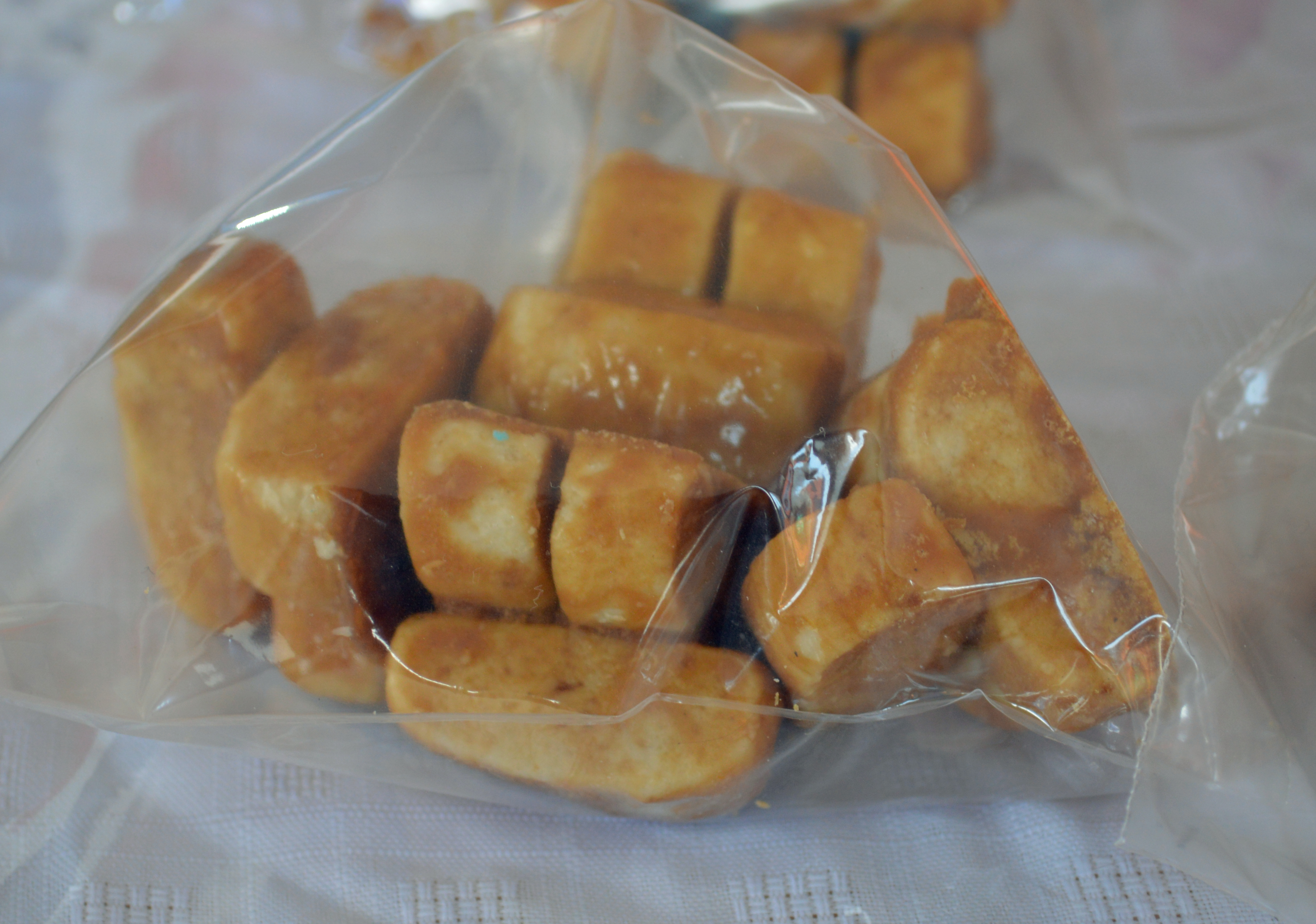 Mueganos, a kind of sweet bread/cookie typical of Huamantla, Tlaxcala, Mexico